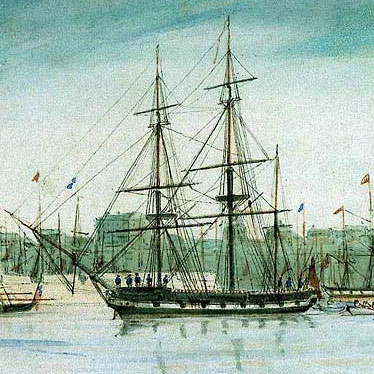 HMS Beagle from an 1841 watercolor by Owen Stanley, painted during the third voyage while surveying Australia.